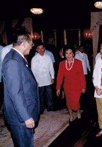 Atty. Dennis Funa with Ming Ramos.